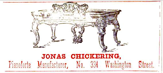 Ad for Jonas Chickering, pianoforte manufacturer